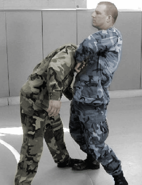 Guillotine choke, standing.